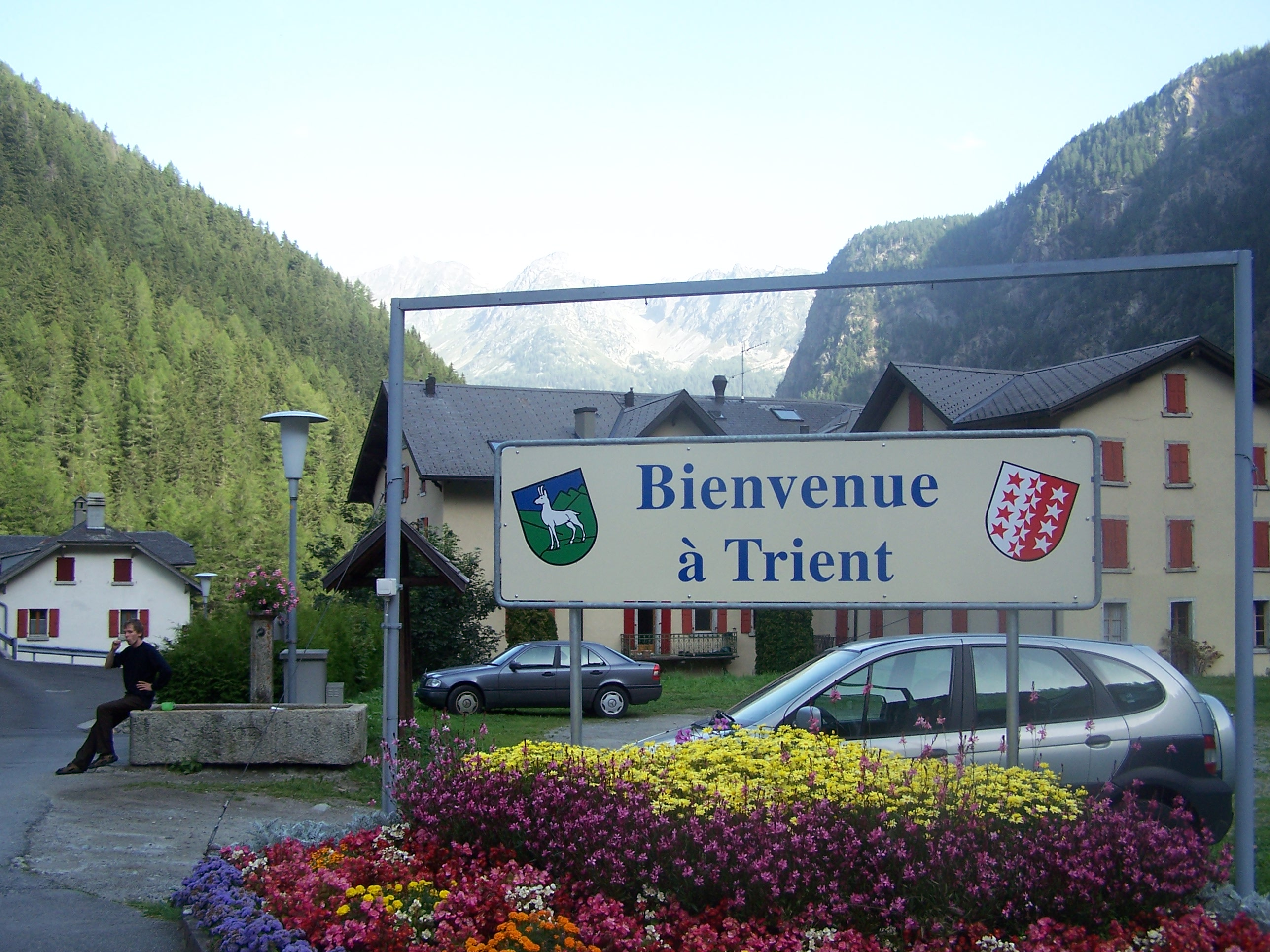 welcome sign at Trient, Switzerland